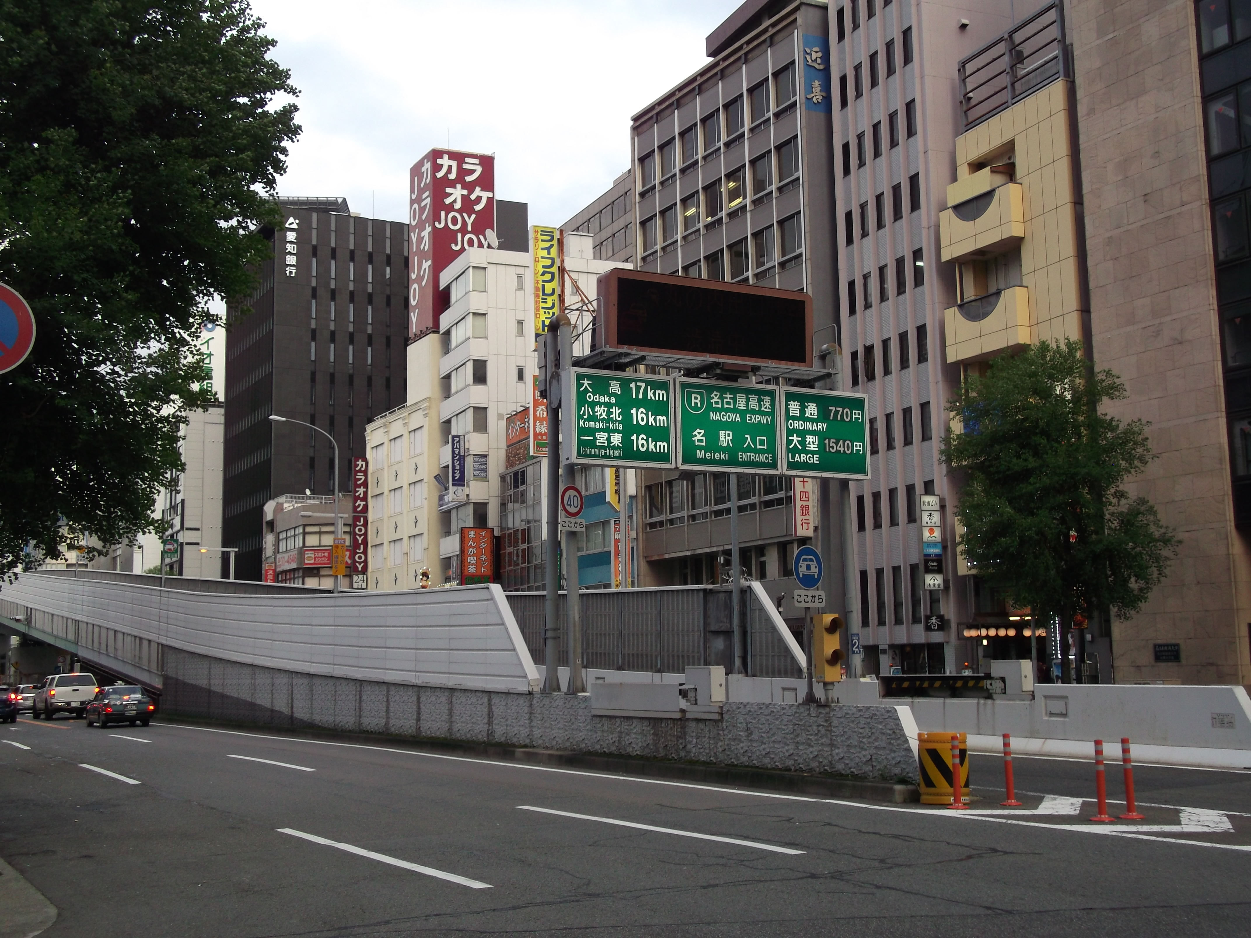 Meieki Entrance on the Nagoya Expressway Ring Route in Nakamura-ku, Nagoya City